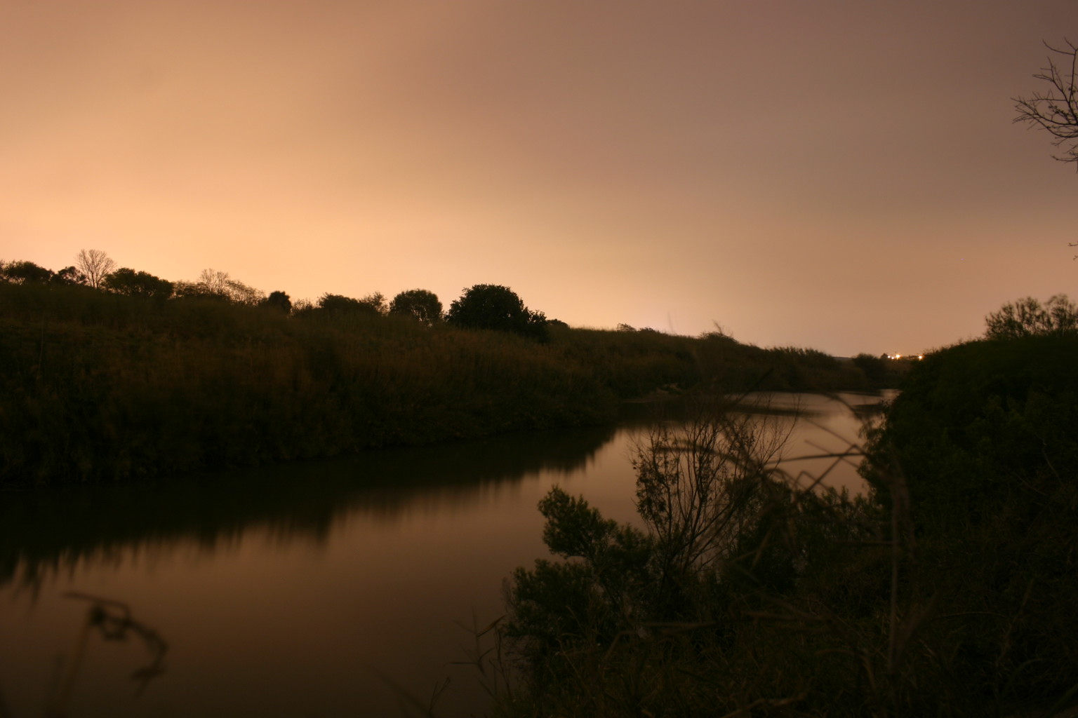 Nightime on the Rio Grande. The United States is on the left, Mexico on the right.